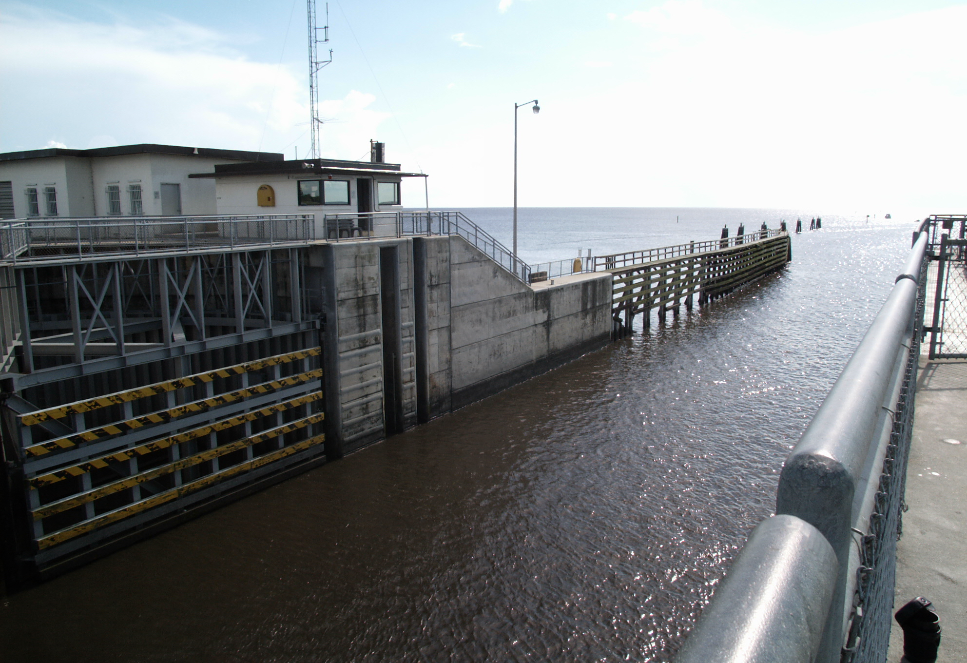 View through open lakeside gates of the Port Mayaca Navigational Lock, onto Lake Okeechobee.